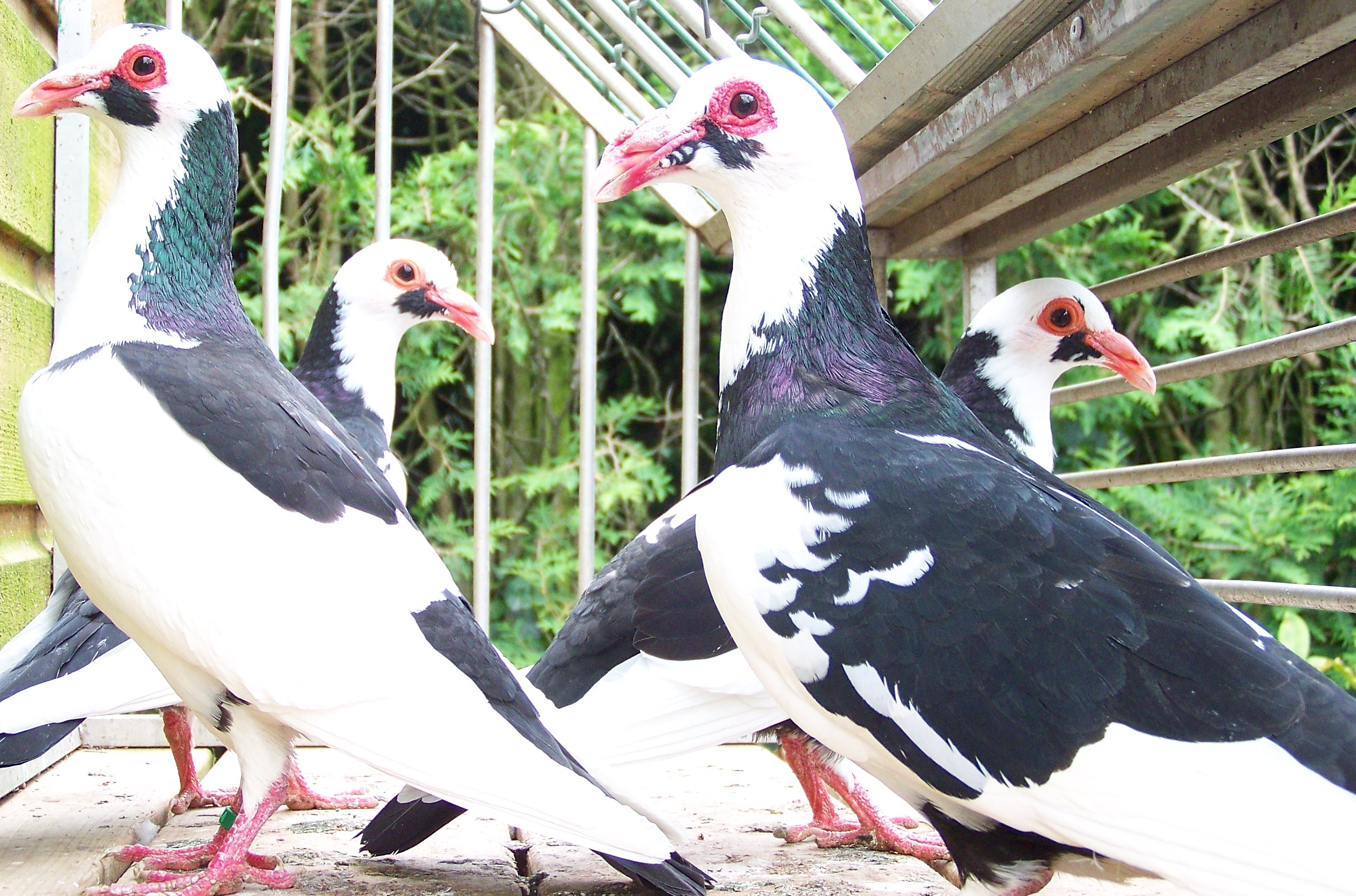 Steinheim Bagdad - A very rare dove breed